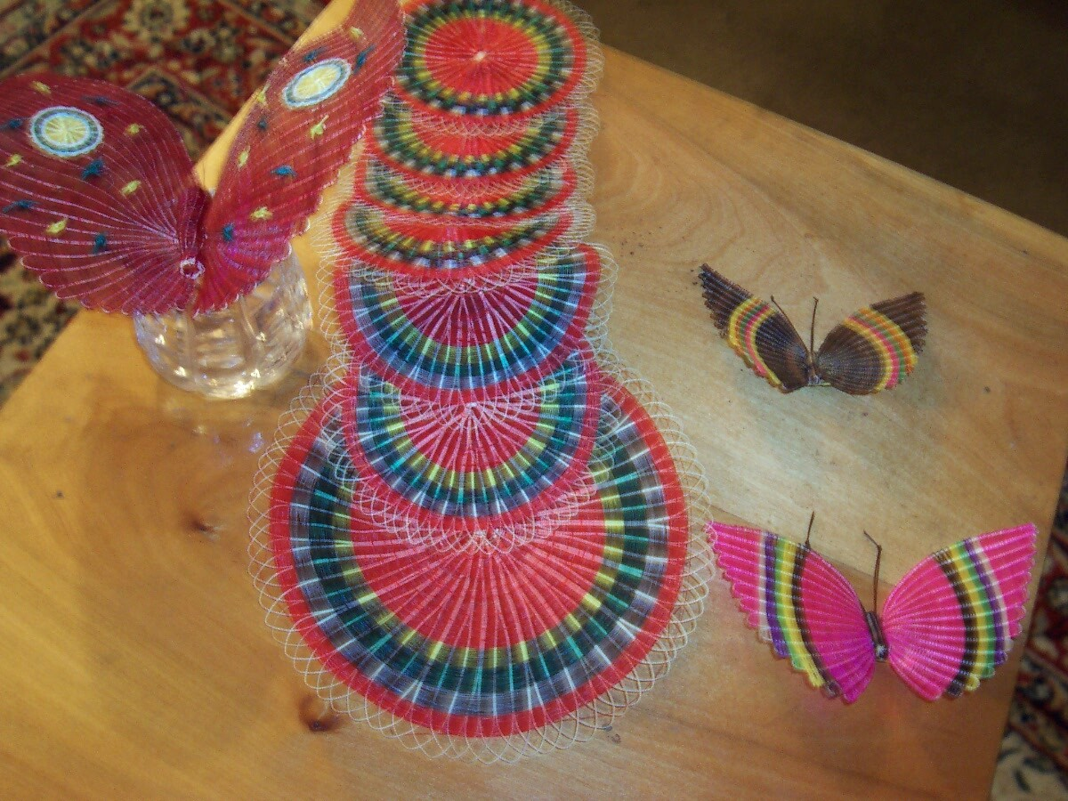 Rari handicrafts, Chile